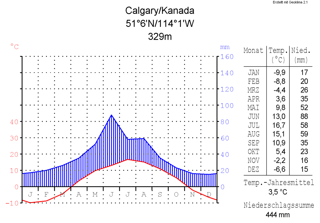 climate chart in the format by Walther and Lieth, metric, °Celsisus and millimeters, made with Geoklima 2.1